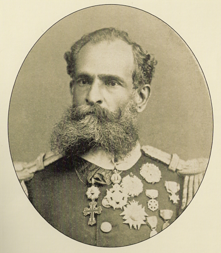 Marshal Deodoro da Fonseca, c.1881.